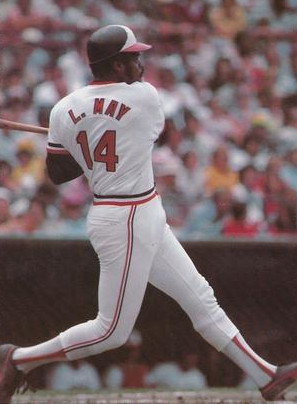 Professional baseball player Lee May